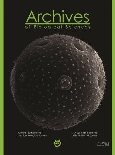 Archives of Biological Sciences new cover page